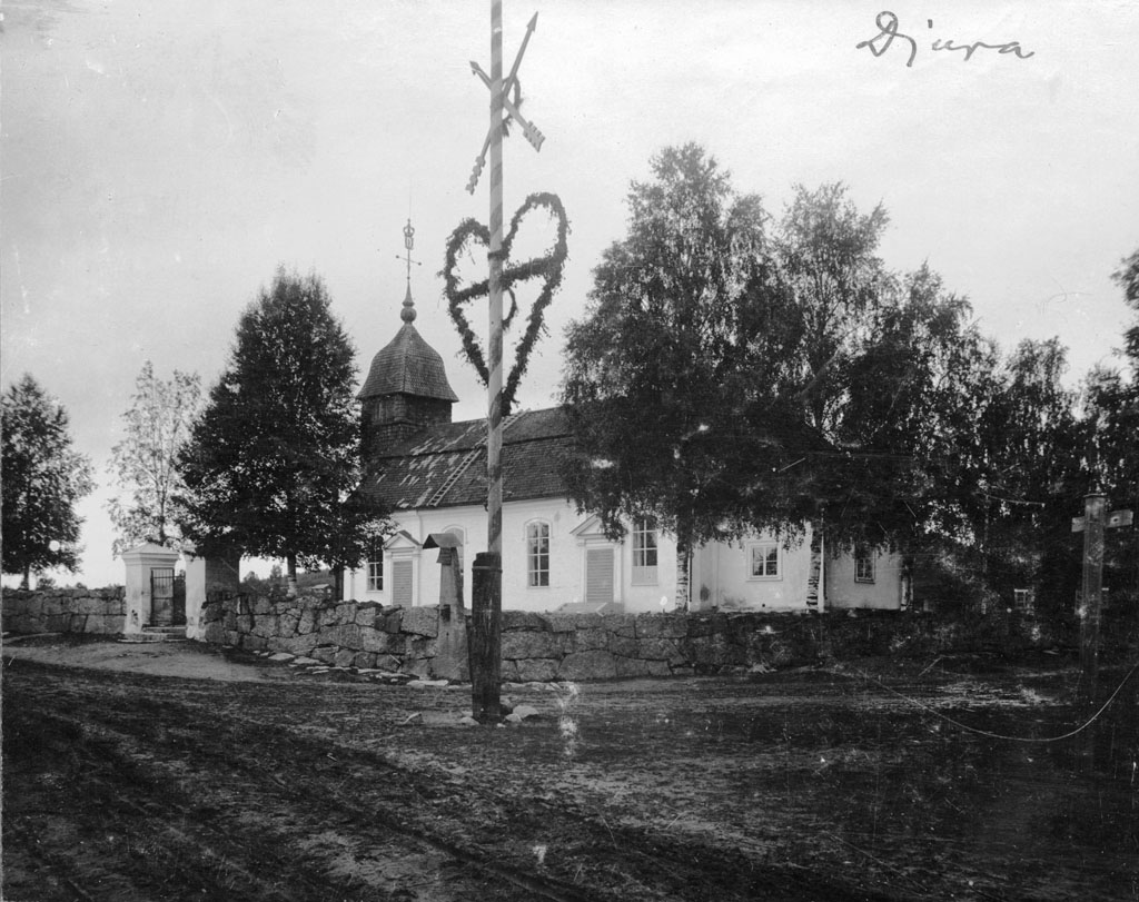 Maypole (Midsummer pole) at Djura Church from 1780, in Dalecarlia. Maybe it's decorated for a wedding?